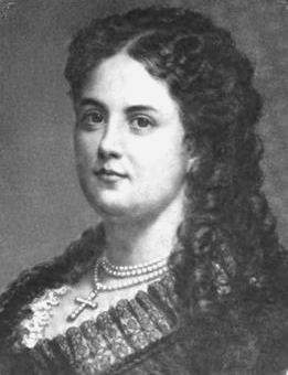 A black and white version of painter Theodore Pine's 1870 color portrait of author, educator and activist Mary Lowe Dickinson, which was published in "Heaven, Home and Happiness" (poetry and prose collection; Mary Lowe Dickinson and Myrta Lockett Avary, eds.). New York, New York: "The Christian Herald," 1901.